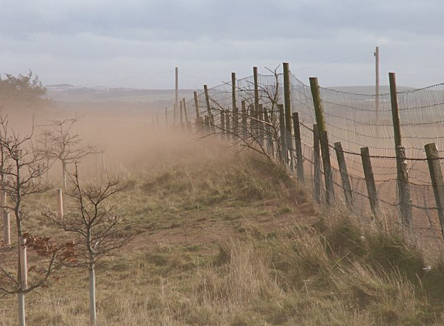 Soil erosion, brownout Days of dry warm south westerly winds and bare fields provide the ideal conditions for windblown soil erosion. The fine particles of sandy soil become airborne and get into everything. Here by Southfield a plantation of young trees is being sand blasted. Further downwind, same soil 367917